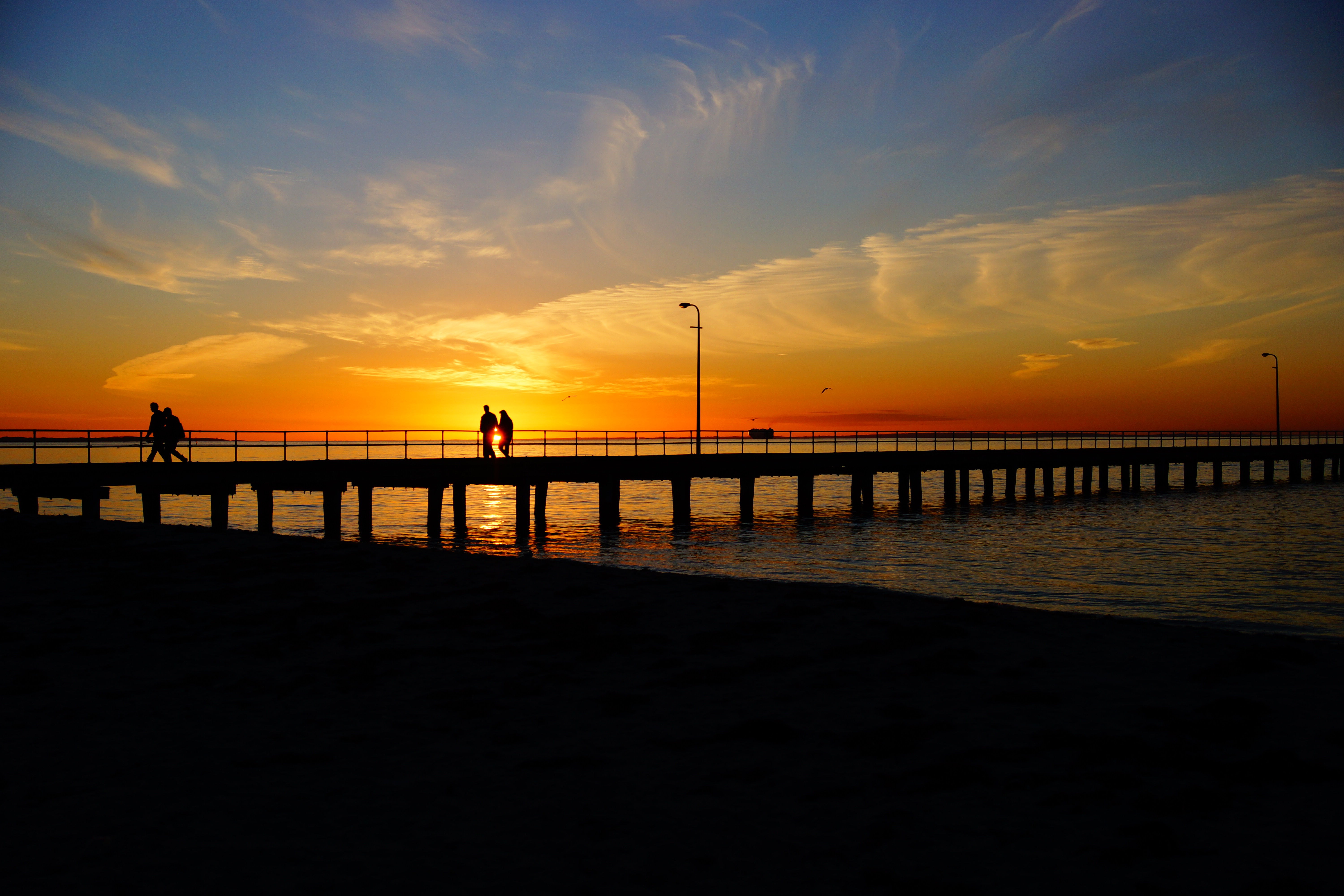 Rosebud, Australia